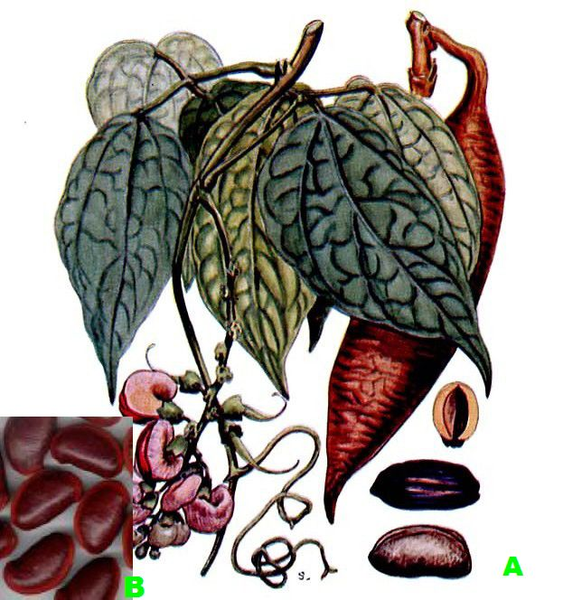 Physostigma _venenosum-2.jpg. B: Admissions.html